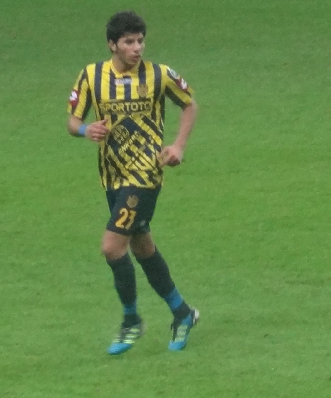 Bilal